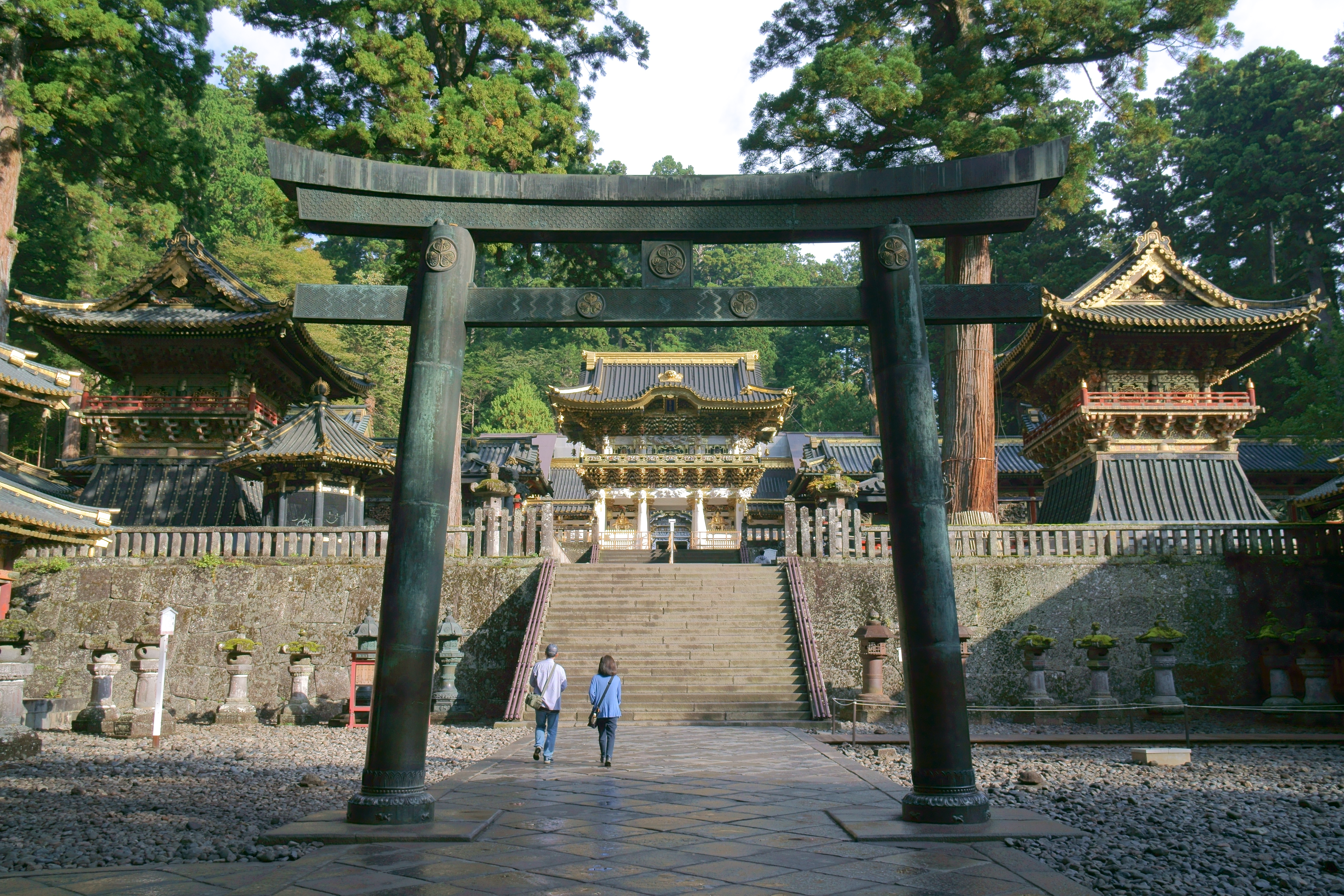 Torii and Yōmeimon-gate of Nikkō Tōshōgū Shrine (City of Nikkō, Tochigi Prefecture, Japan / 2017-10-12)